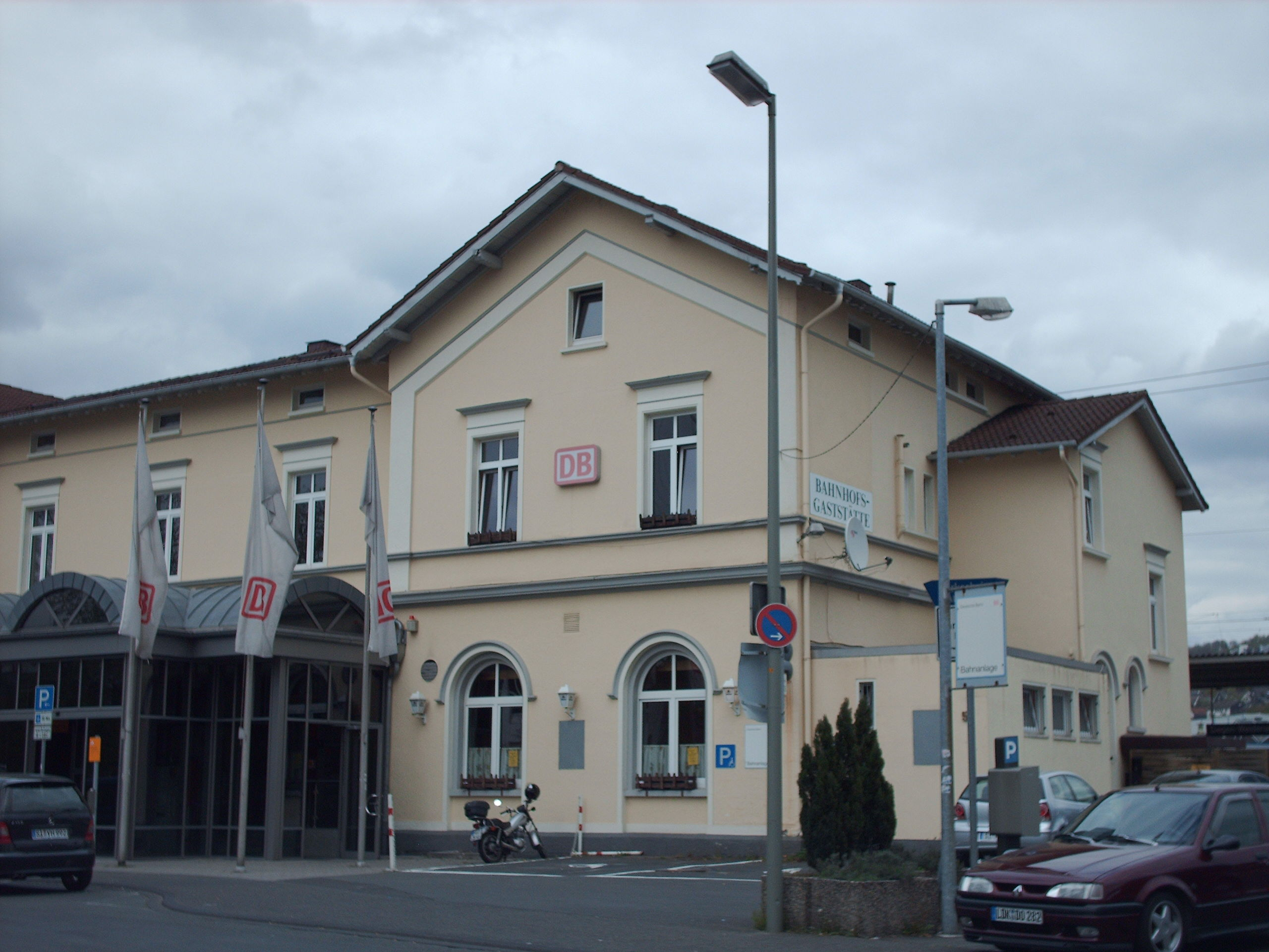 Siegen-Weidenau station, Siegen, Germany check usage